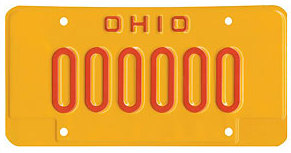 Sample image of Ohio's DUI license plate, issued to DUI offenders with limited driving rights in the state.